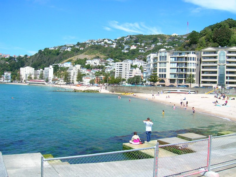 A beautiful Friday on the beachOriental Bay